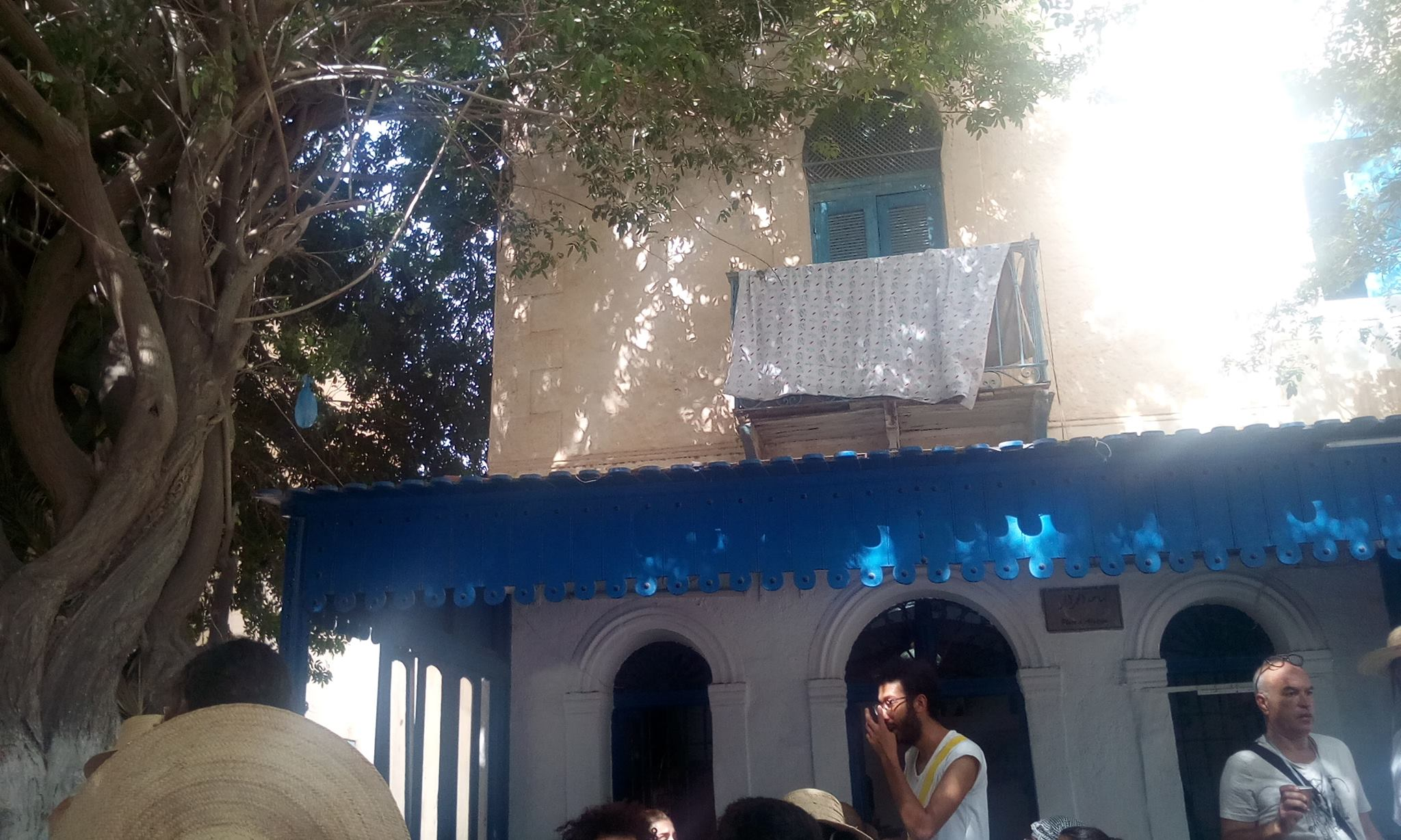 Independance Square in Djerba's Souks